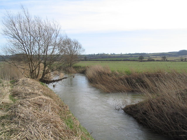 Confluence of the Eye Brook with the River Welland Eye Brook comes in from behind camera; Welland flows in from right